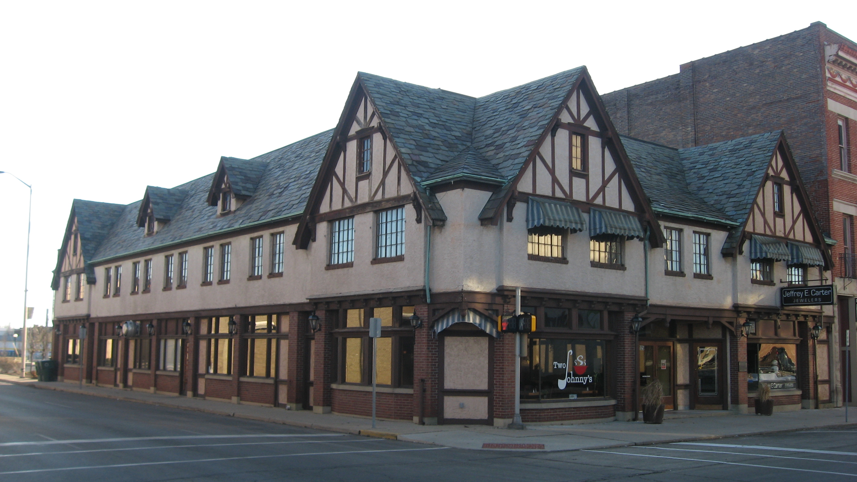 Front and eastern side of the F.D. Rose Building, located at 121 E. Charles Street in Muncie, Indiana, United States. Built in 1926, it is listed on the National Register of Historic Places.